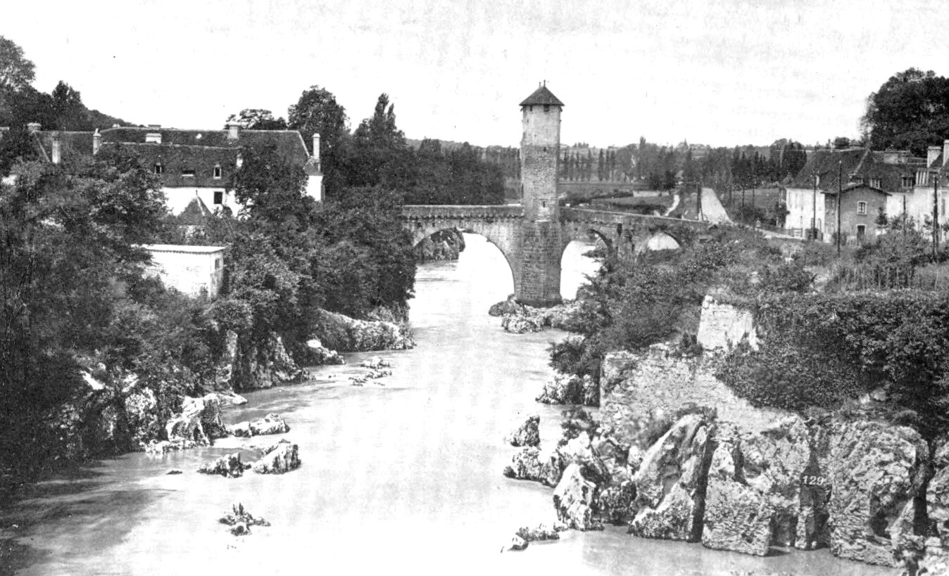 Image from a scanned copy of a book "A book of the Pyrenees ([1907])" by Sabine Baring-Gould from and in the Public Domain. Image has been cropped and the sepia tones removed. Image has been cropped and exposure lightened